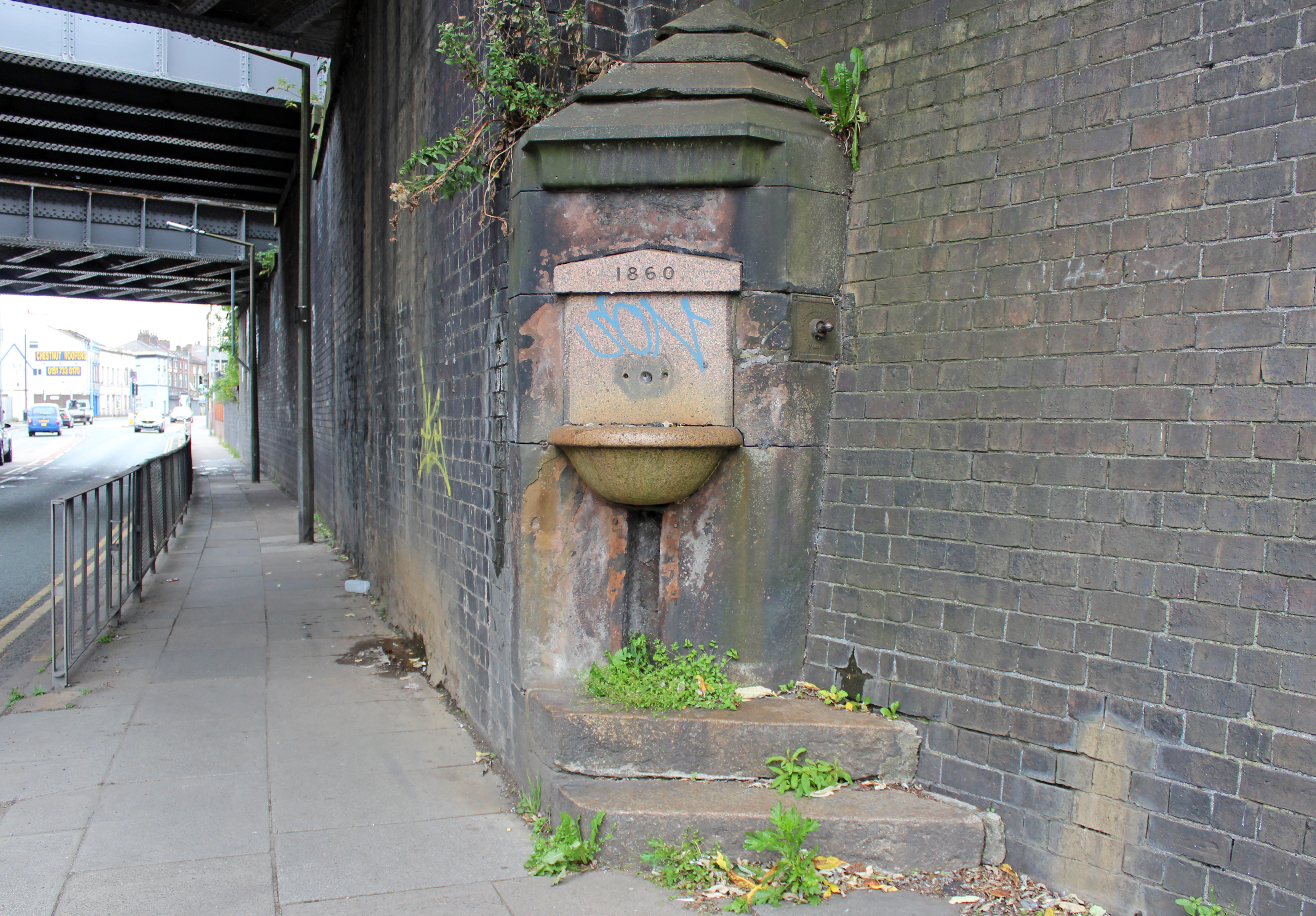 View south showing the fountain nestling under the bridge